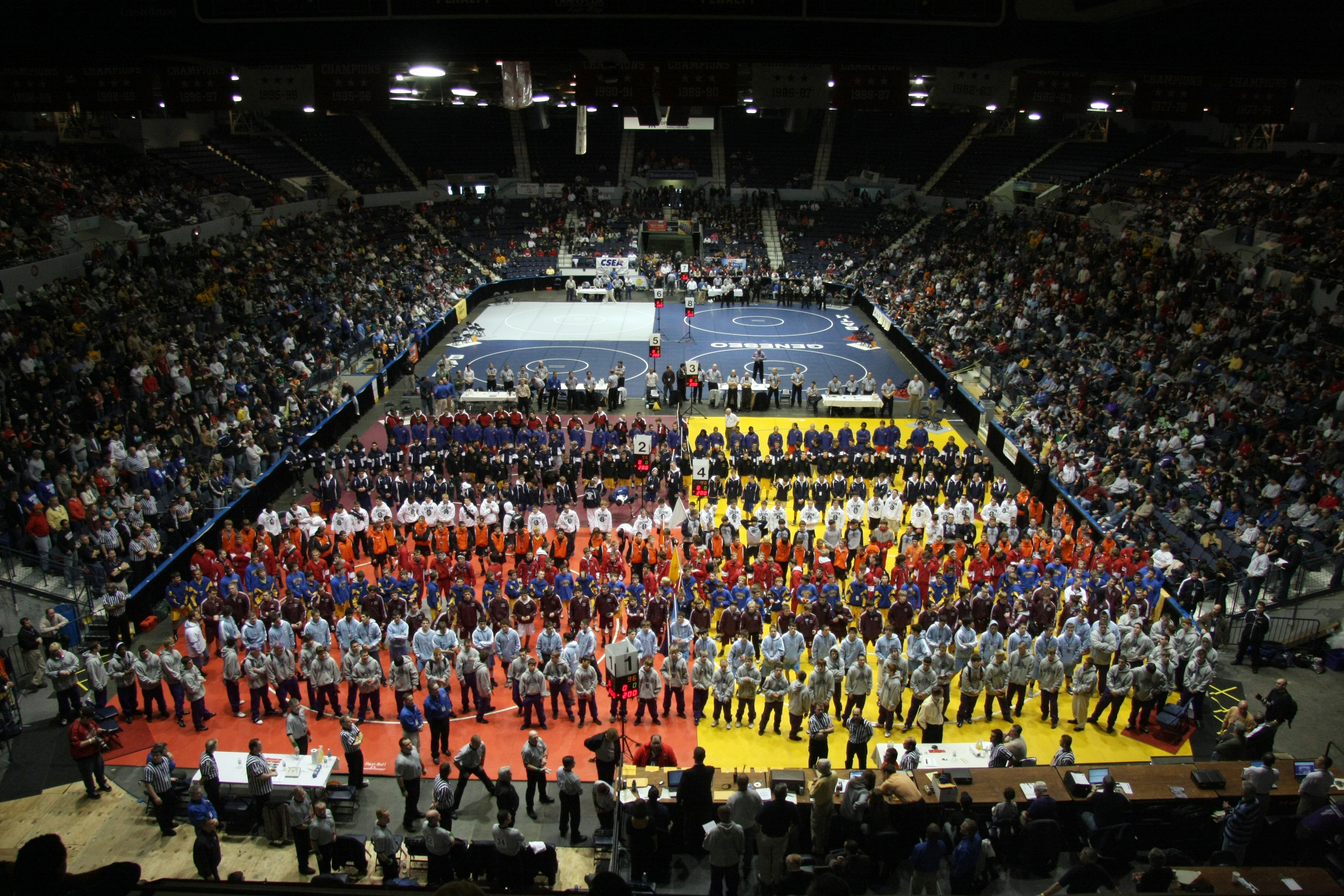 High school wrestlers stand for the singing of the national anthem during the opening ceremonies of the 46th NYSPHSAA Wrestling Championships on March 8, 2008 at Blue Cross Arena in Rochester, New York.